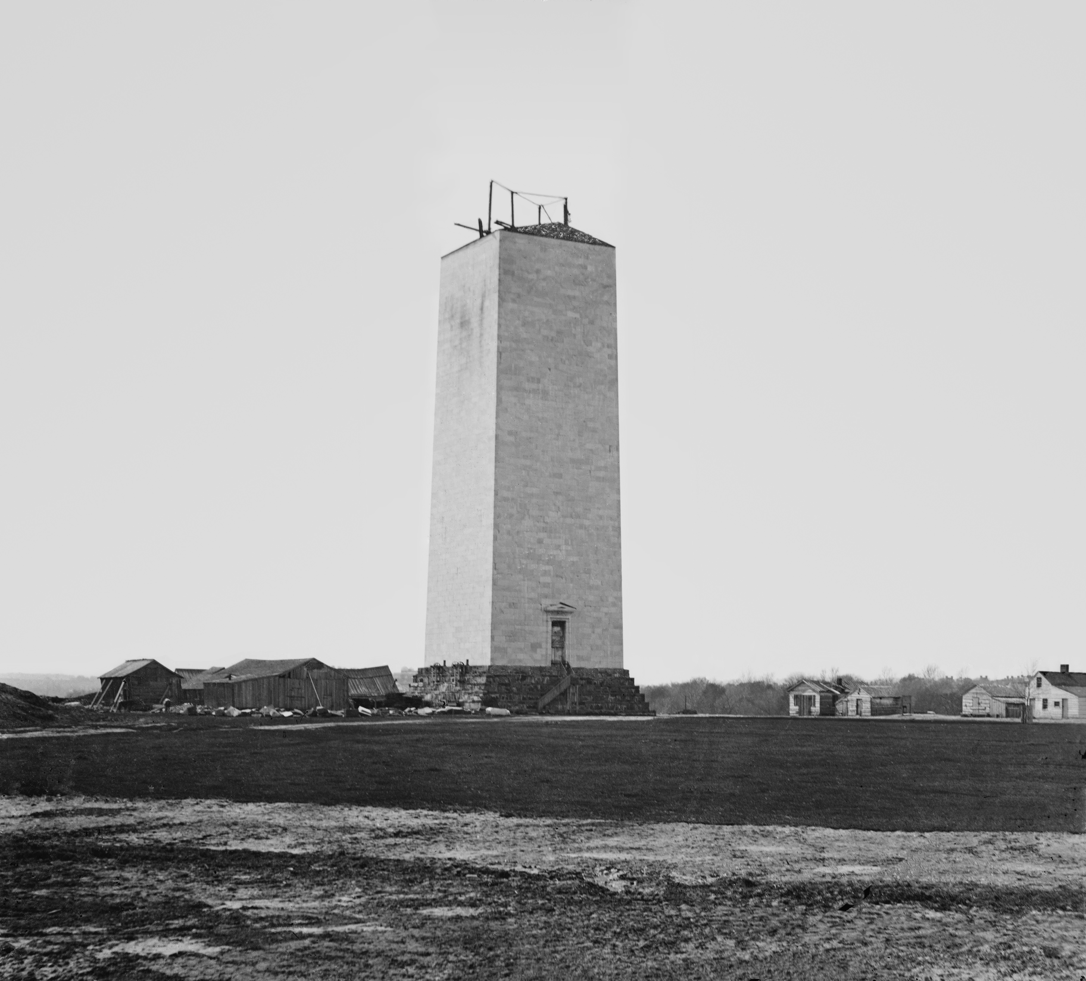 Washington Monument circa 1860. Library of Congress description: "Washington Monument as it stood for 25 years.".